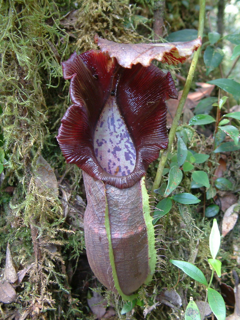 Nepenthes naga from Sumatra